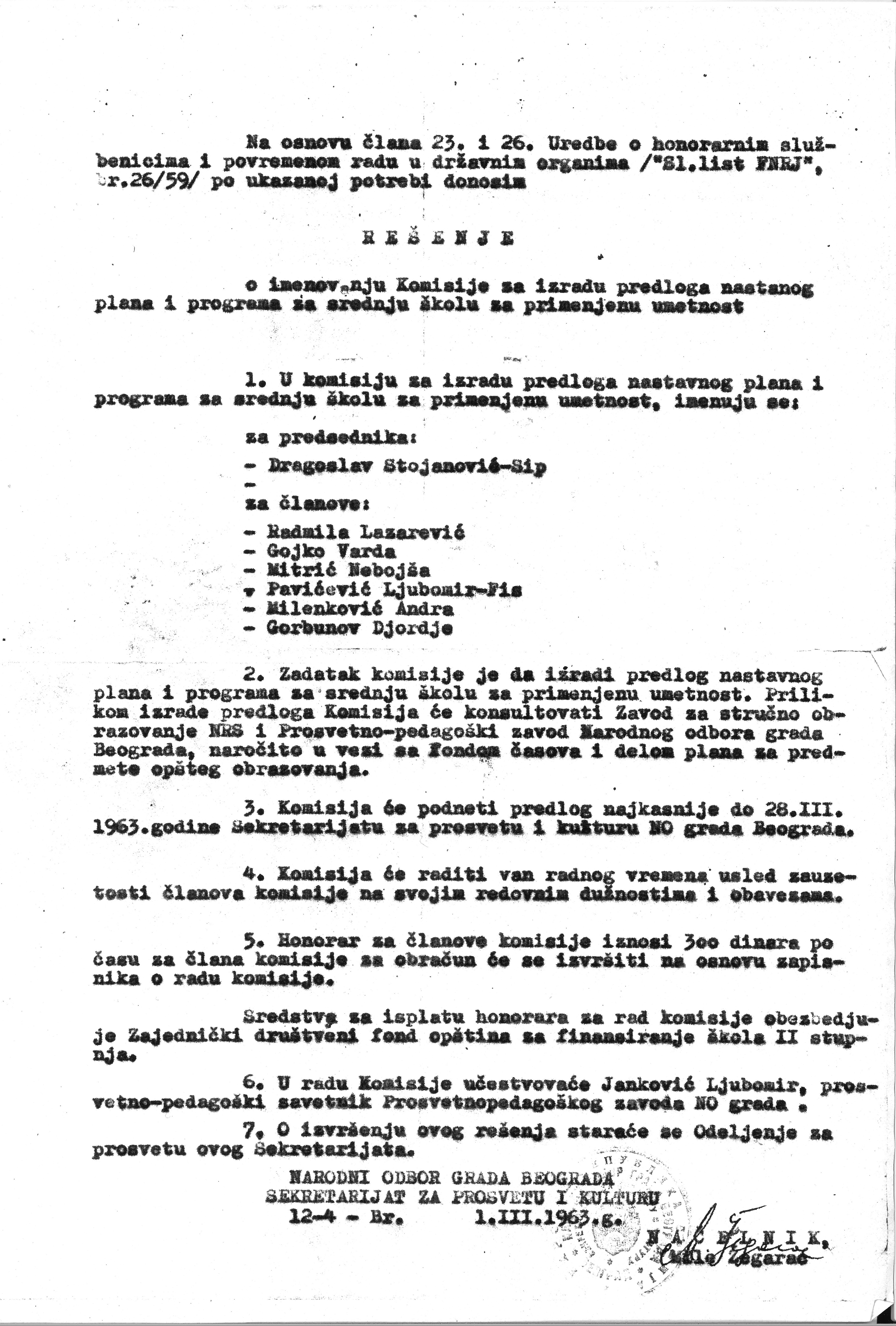 Decision on the appointment of the Committee for the preparation of curriculum of the High school for Applied Art. National Board of the City of Belgrade, Secretariat for Education and Culture- Belgrade, March 1, 1963